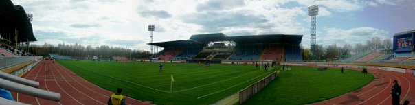 Illichivets Stadium, Mariupol